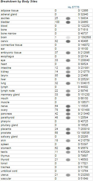 unigene